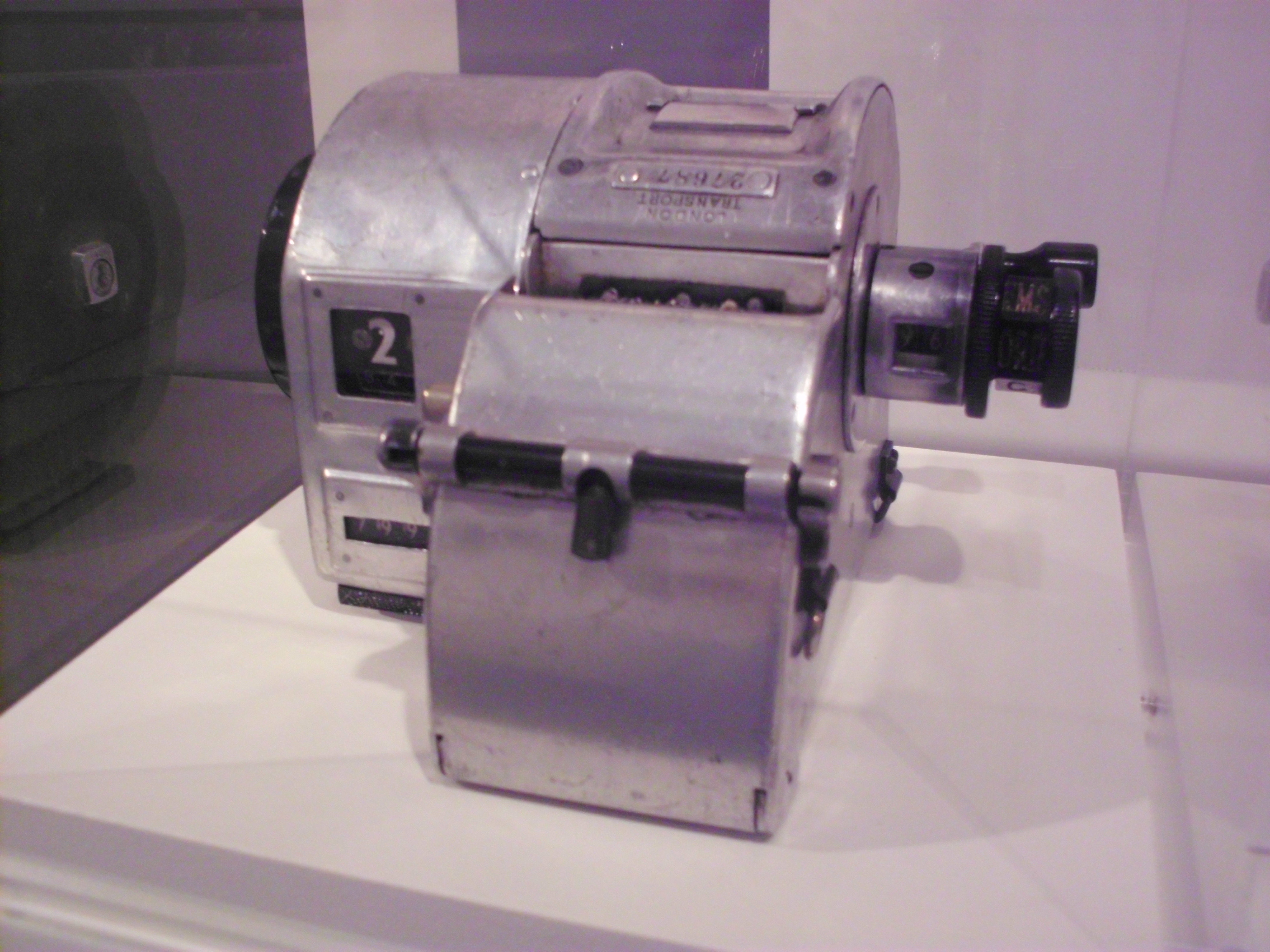 Invented by George Gibson in 1952 and used on London Transport buses until the '90s. This is a decimalised example, at the London Transport Museum's "Designology" gallery.